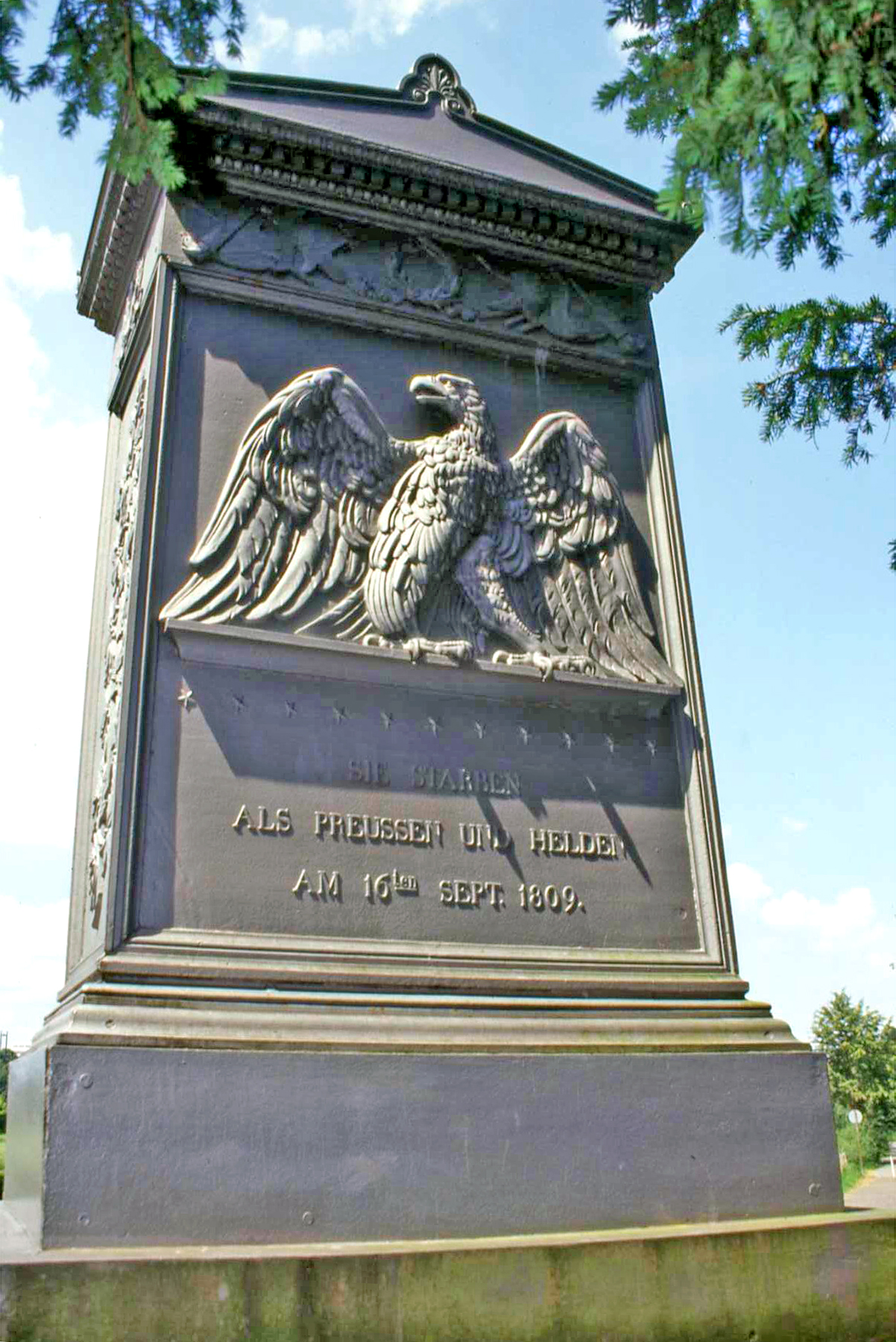 Monument to the eleven officers in Schill's Freikorps who were executed by firing squad in Wesel.